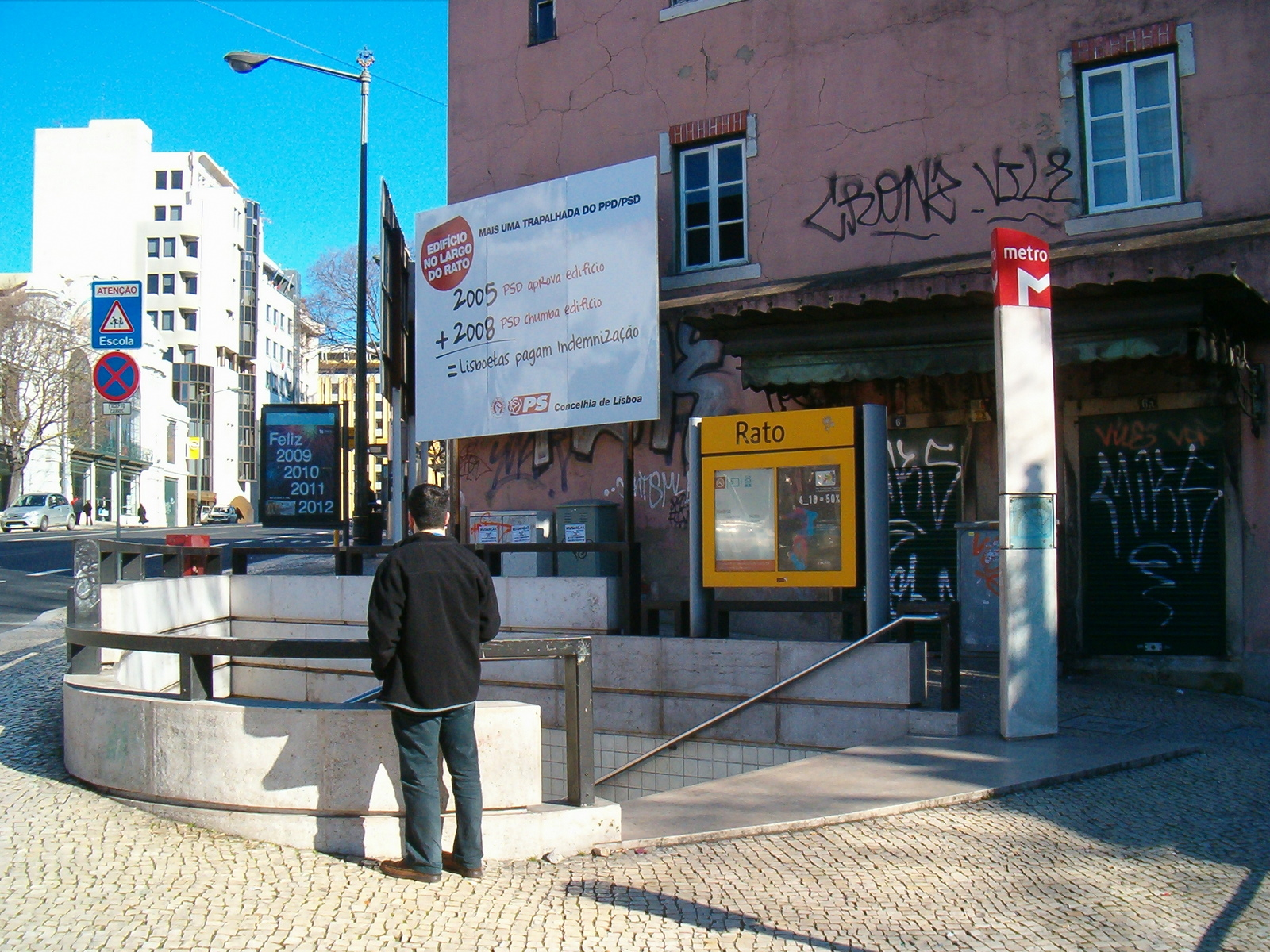 Metro station Rato (Lisboa)